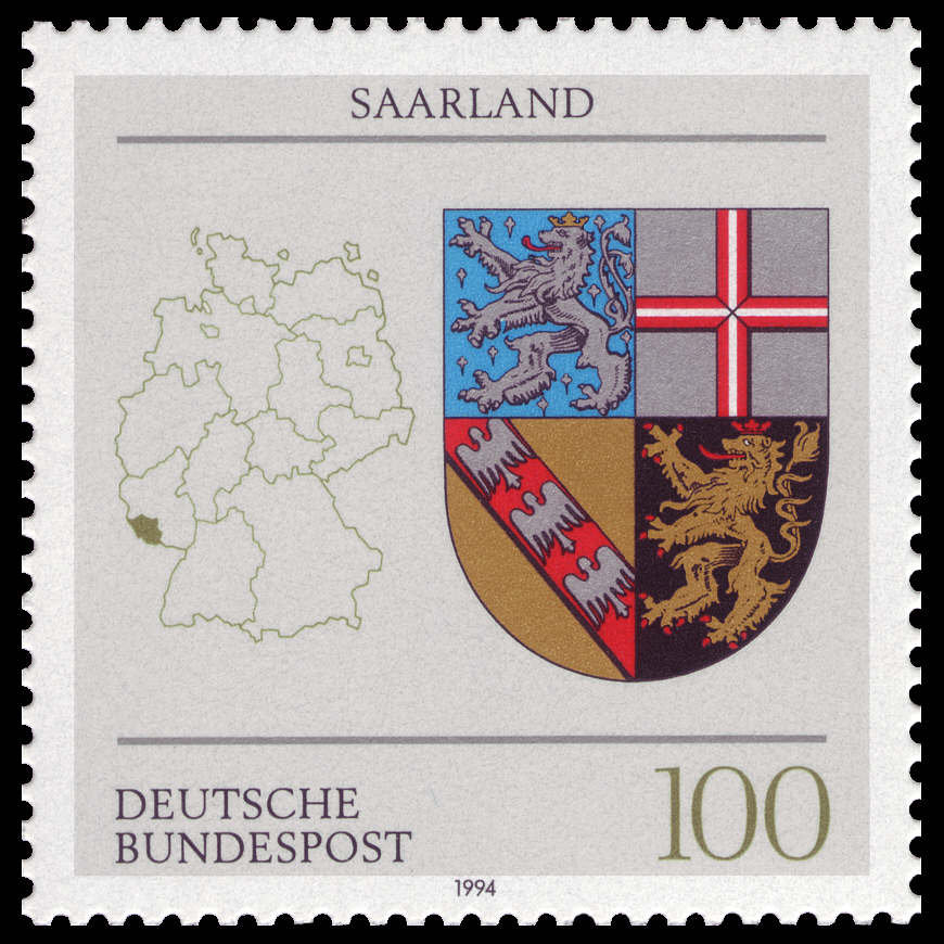 Coats of arms of the 16 states of Germany Ausgabepreis: 100 Pfennig First Day of Issue / Erstausgabetag: 13. Januar 1994 Michel-Katalog-Nr: 1712 Designer: Jünger